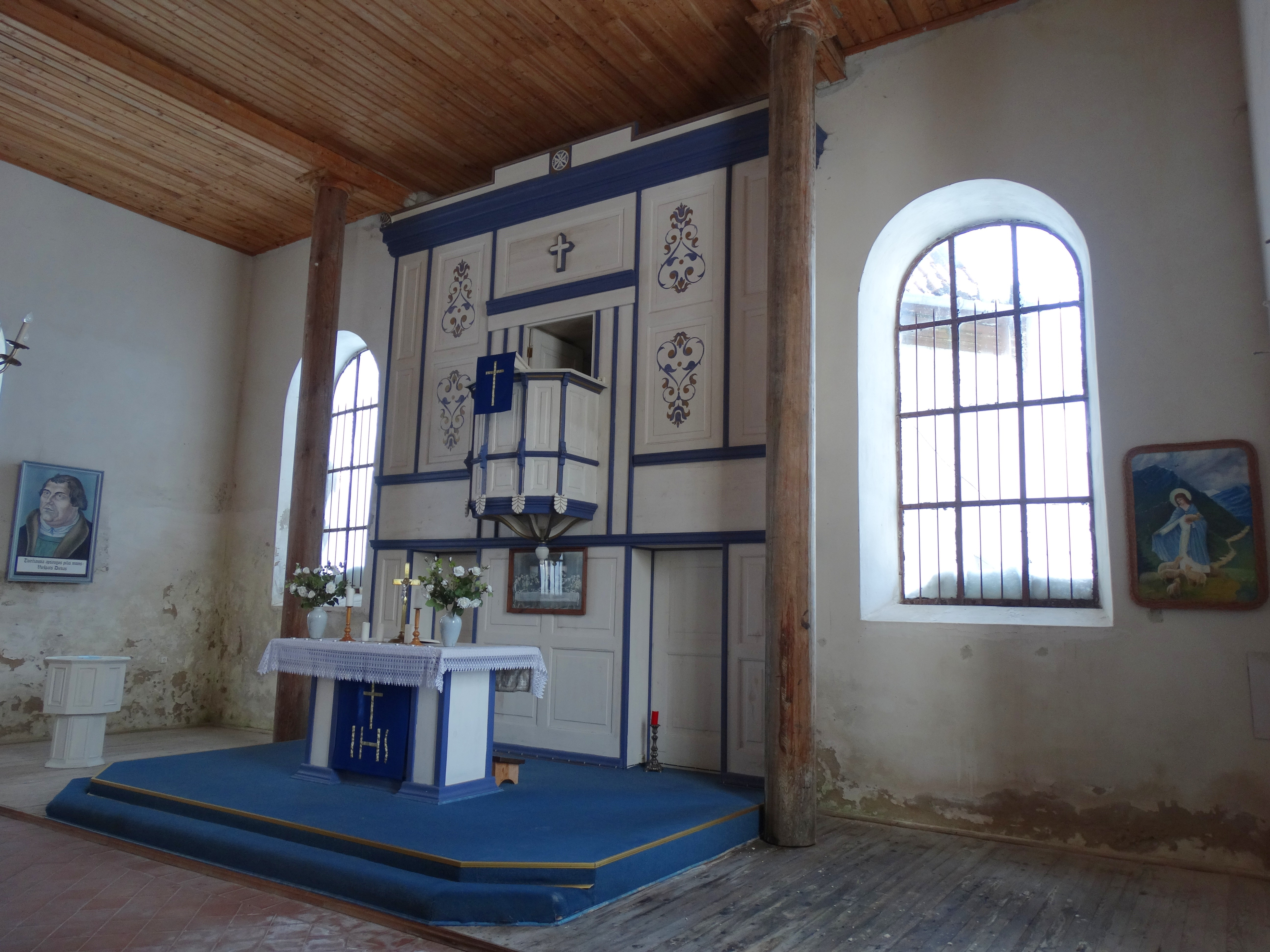 Lutheran Church, interior, Rusnė, Lithuania